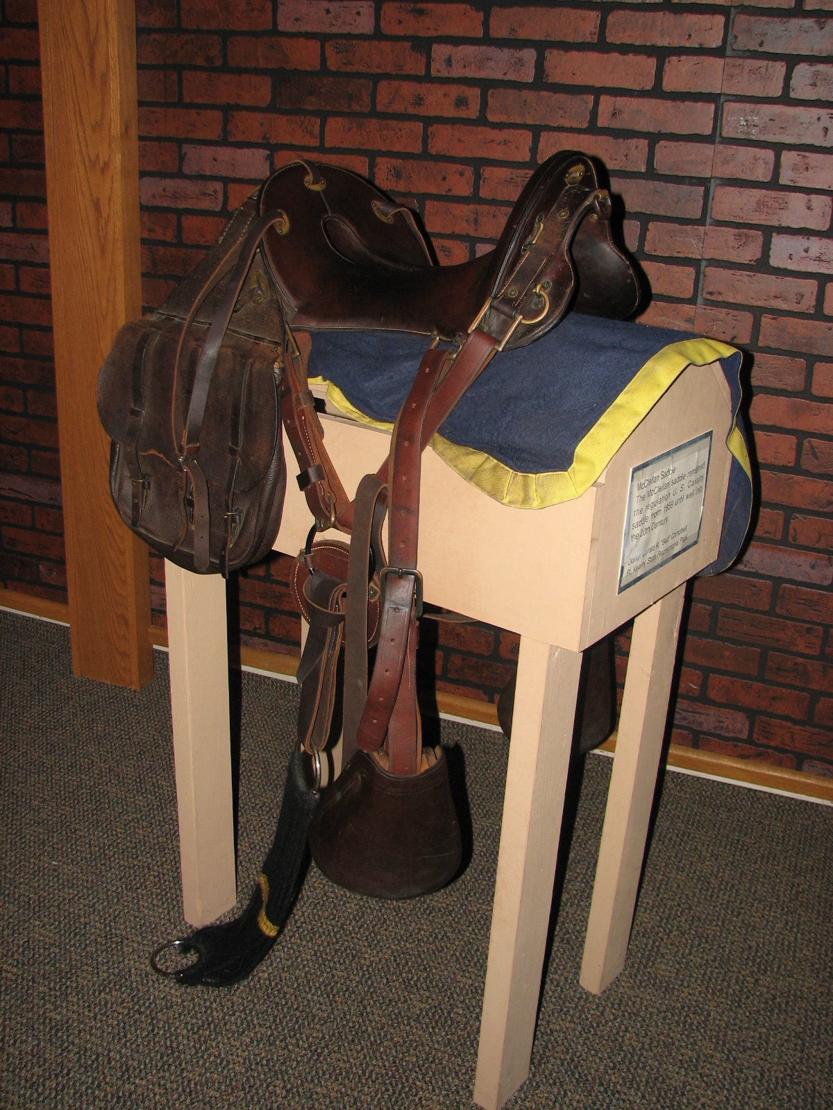 The McCellan Saddle was a riding saddle designed by George B. McClellan, a career Army officer in the U.S. Army, and adopted by the Army in 1859. The saddle continued in continuous use from the period of adoption until the U.S. Army's last horse cavalry and horse artillery was dismounted in World War Two. Even at that, the saddle has continued on in use with ceremonial units in the U.S. Army which continue to use horses. Photo taken at Ft Kearny Nebraska State Park